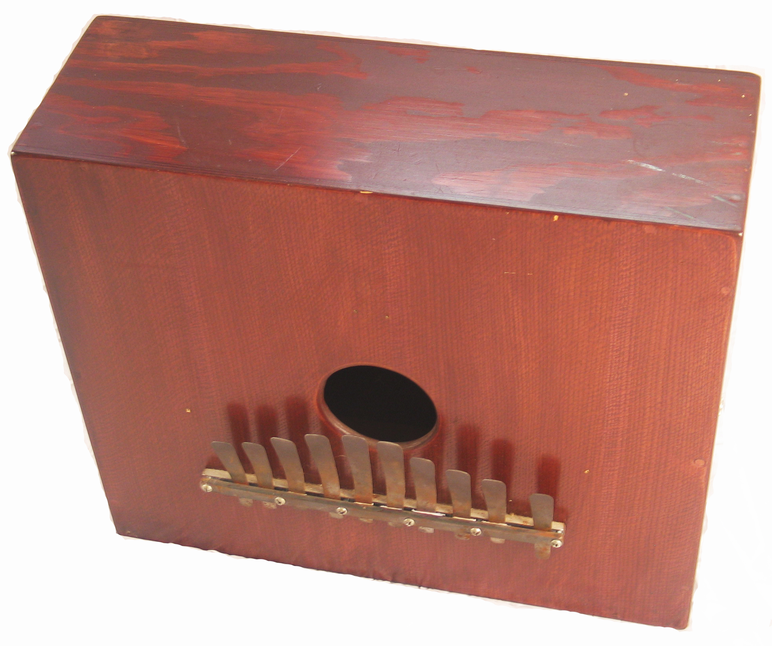 The Cuban marimbula.